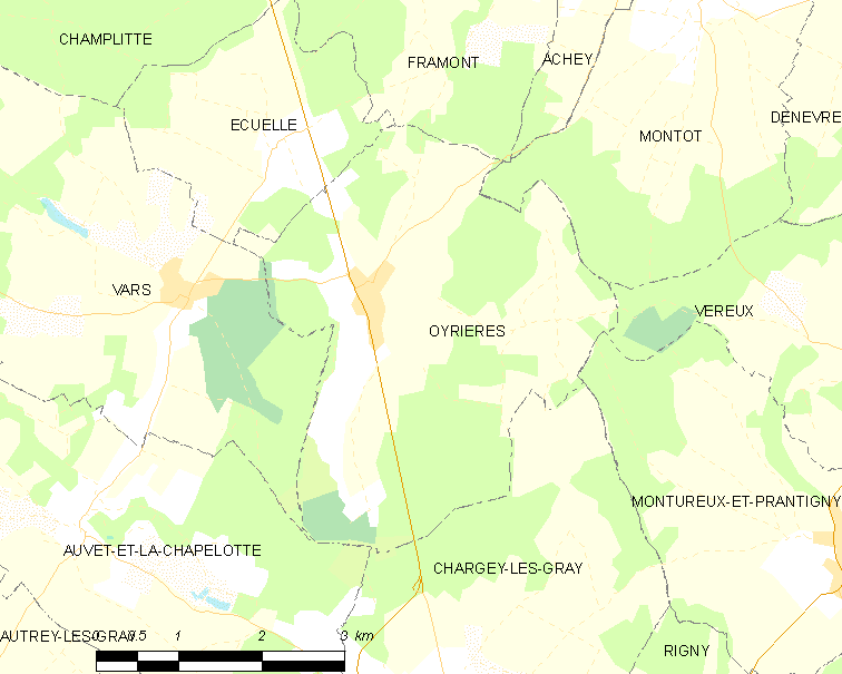 Map of French municipality